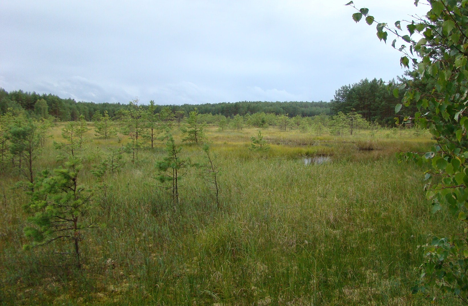 Transitional bog with Drosera rotundifolia, Scheuchzeria palustris, Rhynchospora alba, Oxycoccus palustris, Sphagnum sp., Comarum palustre, Calla palustris, Menyanthes trifoliata and other. Gmina Lipnica, Poland.